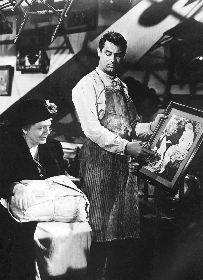 Promotional still from the 1944 film None but the Lonely Heart, published in New Movies, the National Board of Review Magazine